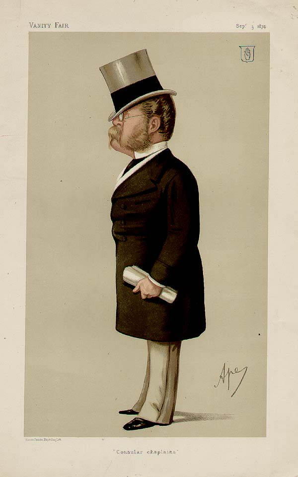 Statesmen No.184: Caricature of Sir H Drummond-Wolff KCMG MP. Caption reads: "Consular chaplains"